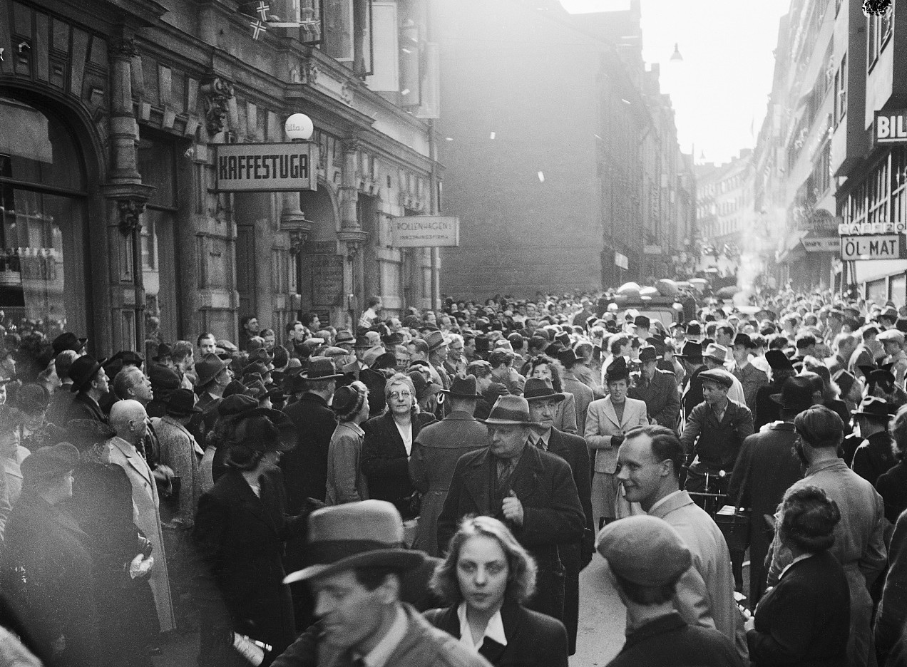 FOTOGRAFIFredsdagen den 7:e maj 1945. Folkmassor längs Jakobsbergsgatan firar freden. 1945-1945FOTOGRAF: Okänd (Aftonbladet). AftonbladetBILDNUMMER:Stockholms stadsmuseum, Sweden